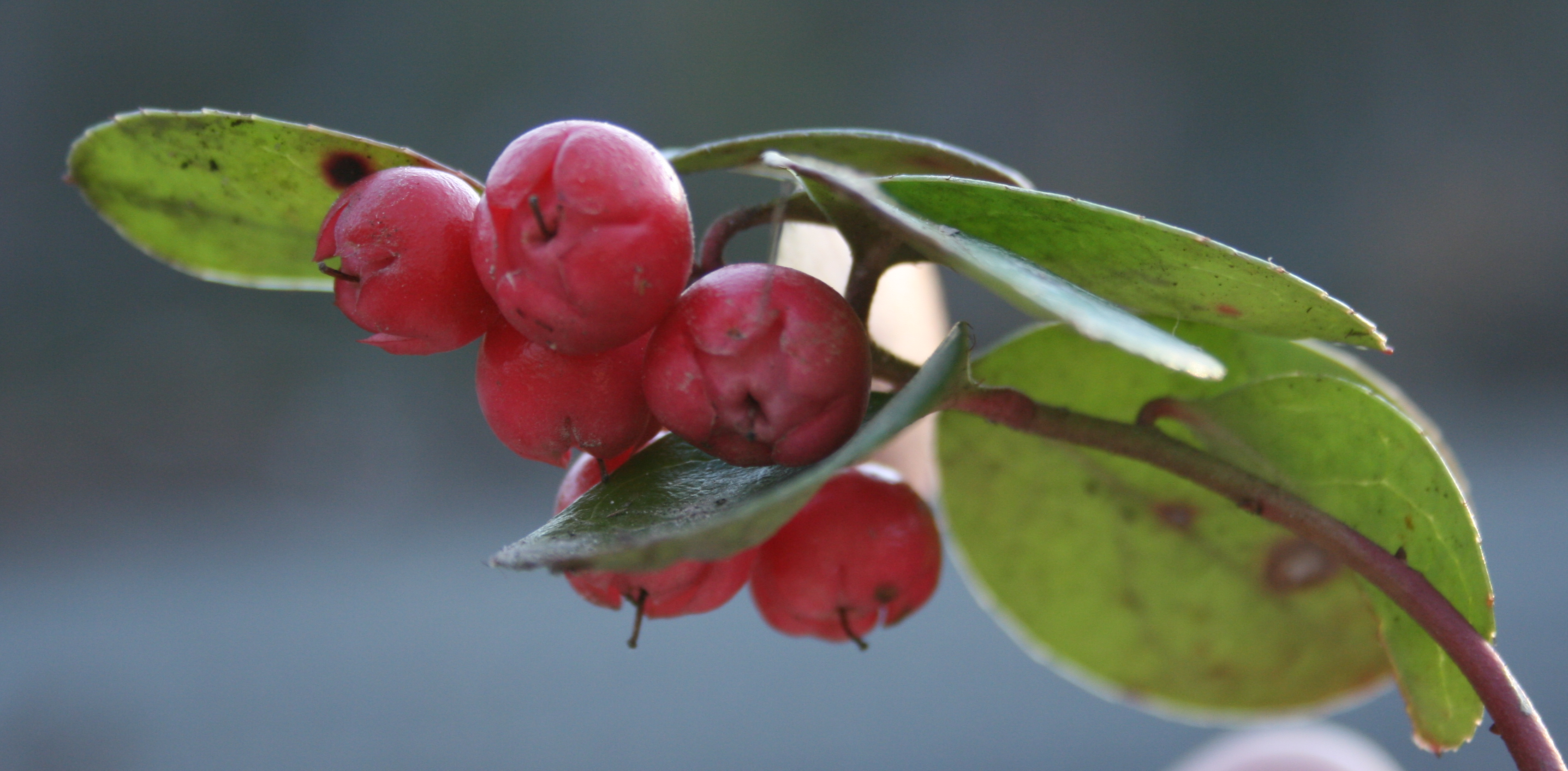 Wintergreen (Gaultheria procumbens, the Eastern Teaberry) from a north-facing hillside by the upper reaches of Beaver Dam Road near Fountain Springs, PA.